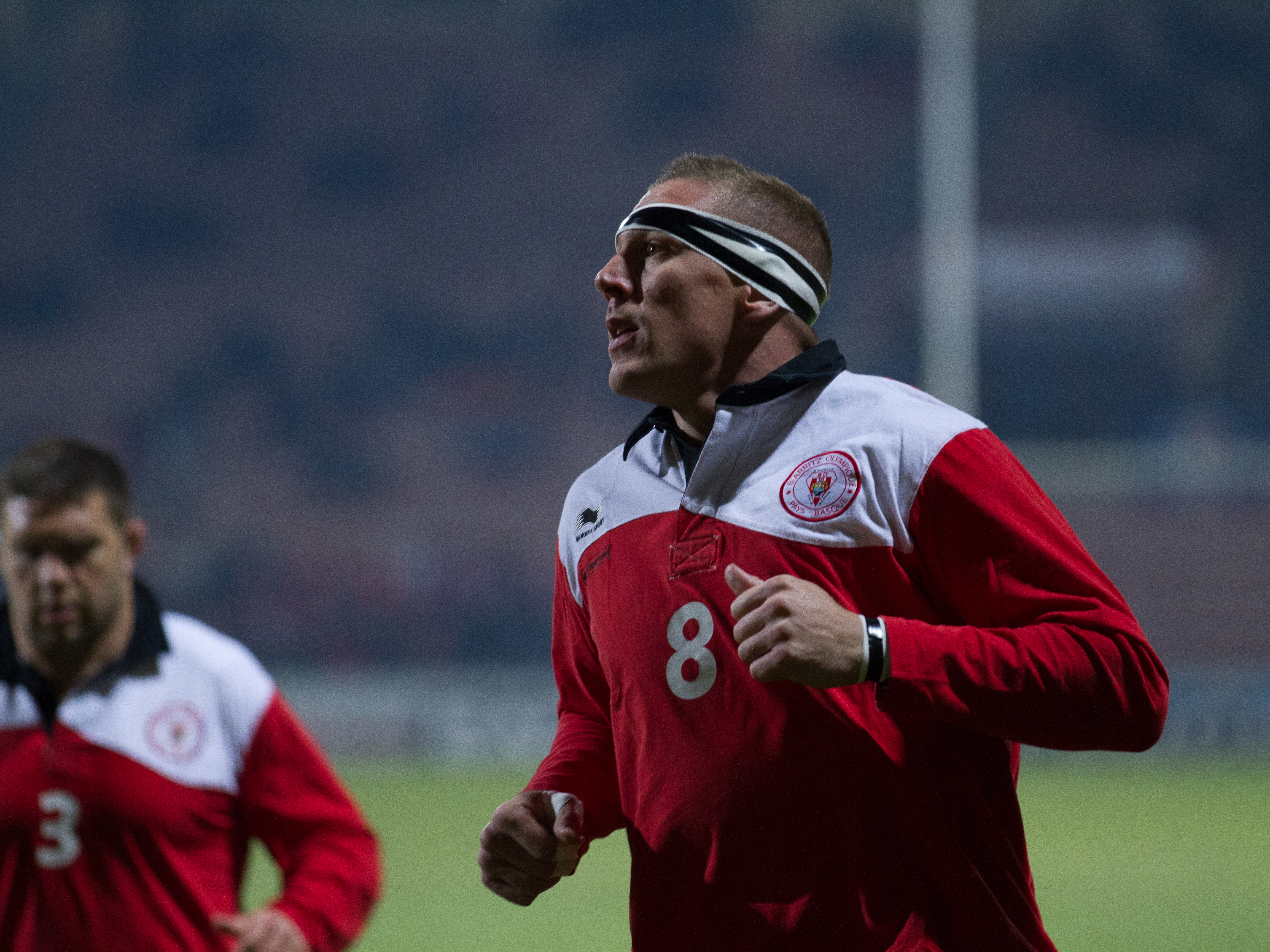 Imanol Harinordoquy